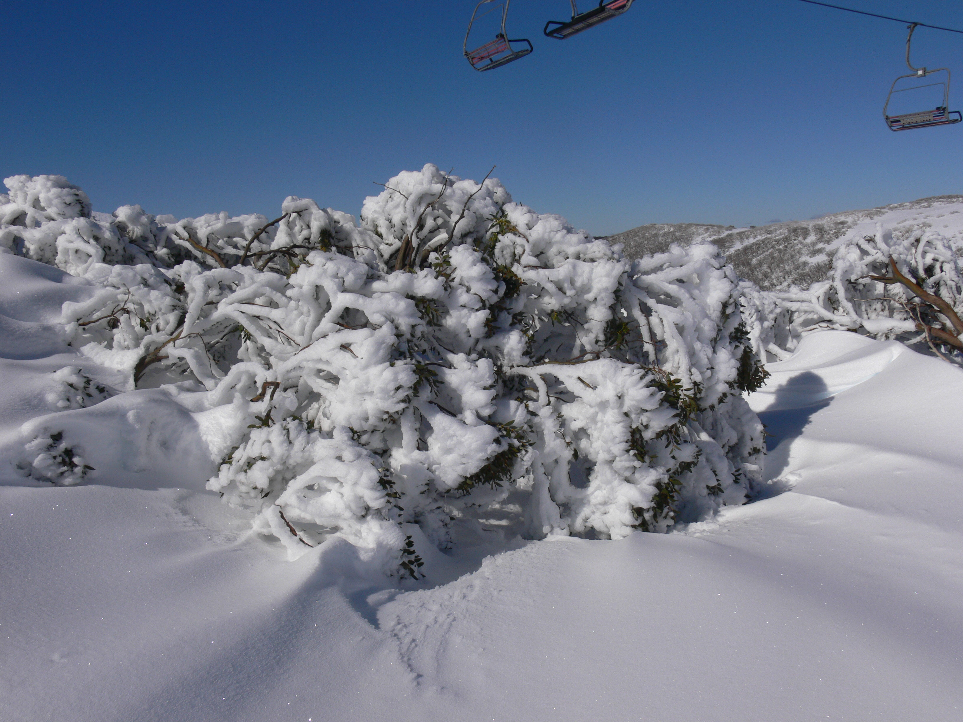 Snow gum, Australian Alps, showing the tree surviving in deep snow=